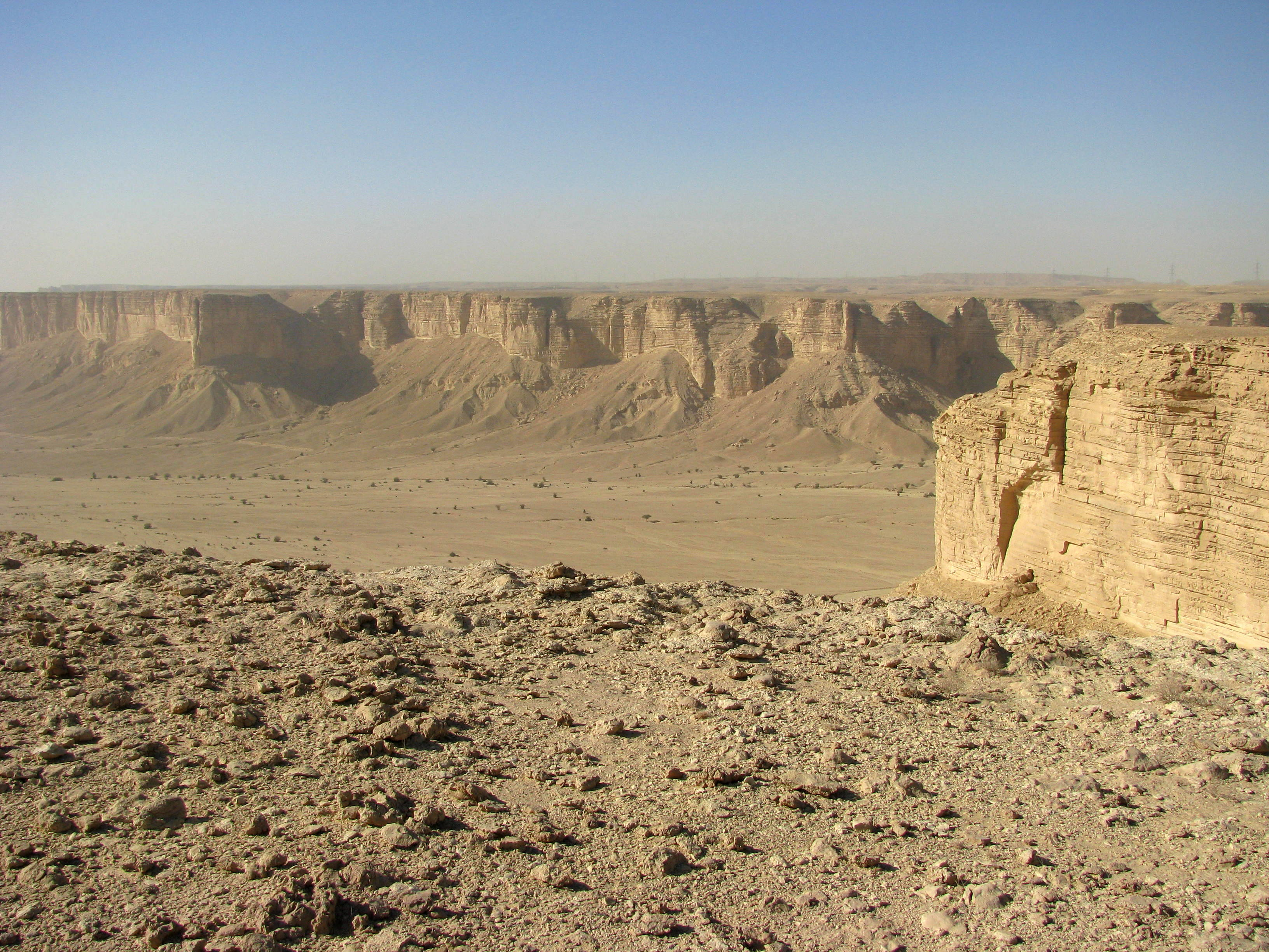 Looking north from the top of a camel trail on the Tuwaiq Escarpment near Riyadh.